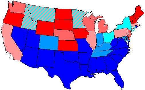 Summary of party control of U.S. house seats in the 81st United States Congress following election. Stripes indicate a tie between two or more parties. Legend: 80.1-100% Democratic seat majority 60.1-80% Democratic seat majority 60% or less Democratic seat plurality 60% or less Republican seat plurality 60.1-80% Republican seat majority 80.1-100% Republican seat majority